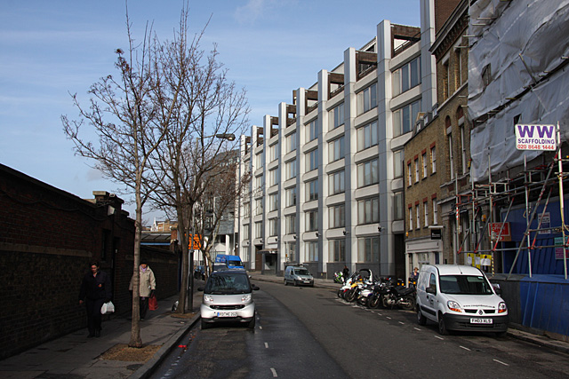 Turnmill Street Looking north west from opposite the junction with Benjamin Street. The wall on the left conceals Farringdon Station.